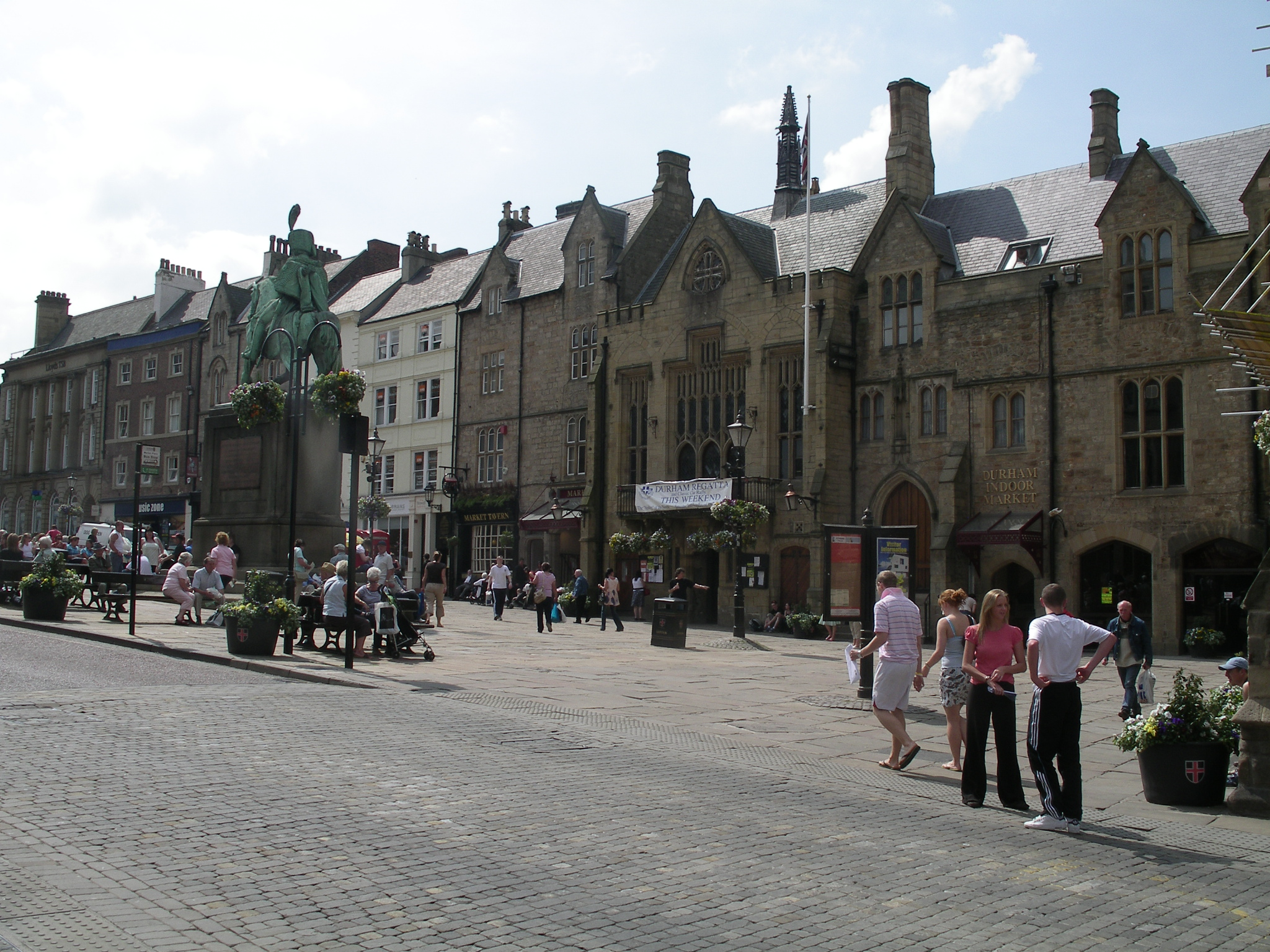 Market Place in Durham, England. Taken by